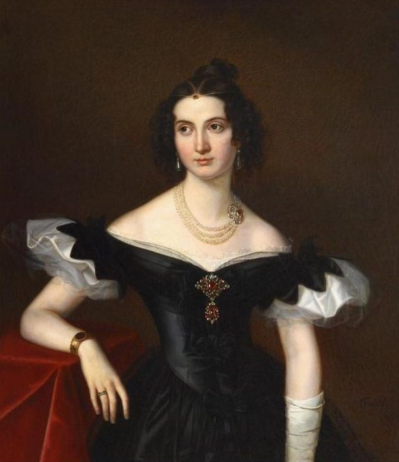 Olga Potockich Naryszkin